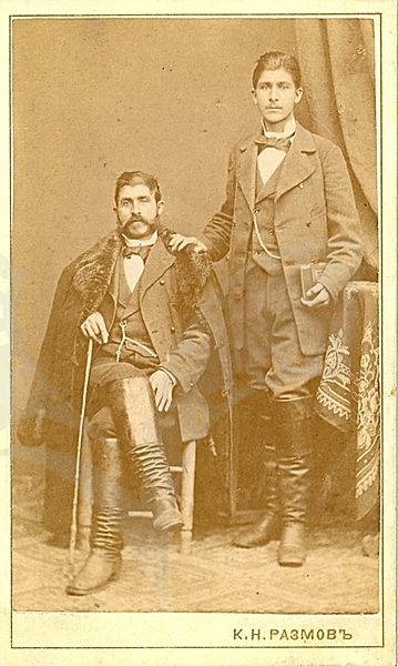 Hristo Makedonski and his son Georgi Makedonski in 1879